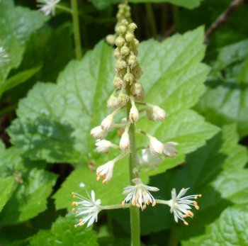 Foamflower. Picture by cmouse.